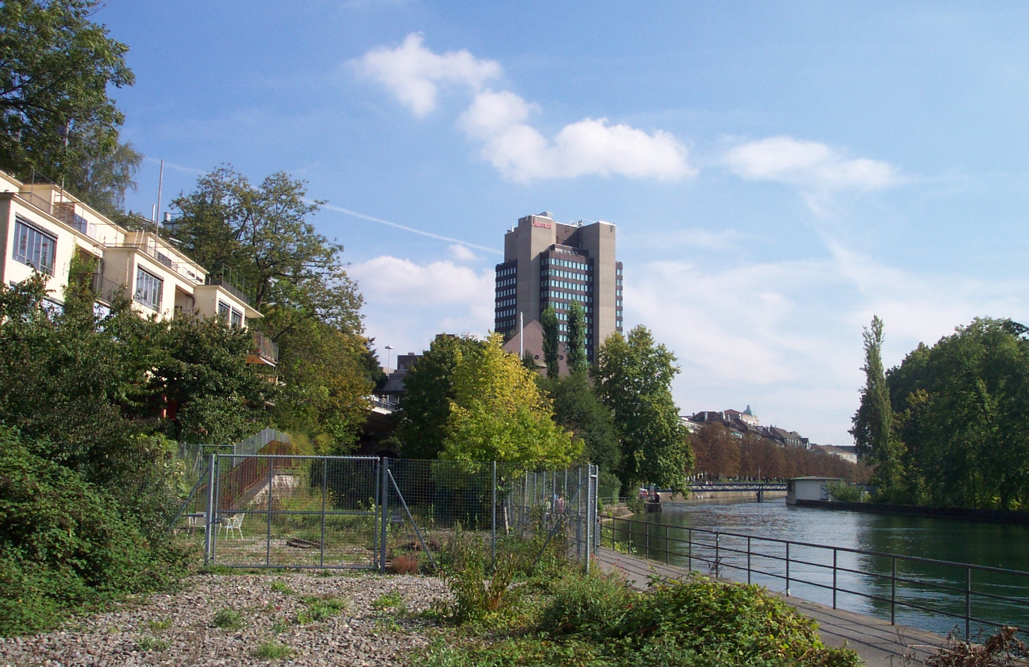 Entrance to the old Letten Tunnel, near the former Zurich Letten railway station. For more information, see Wikipedia article Zurich Letten railway station.